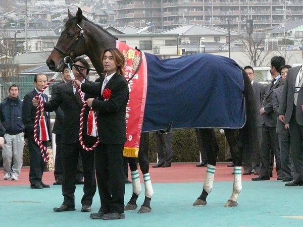 Victoire-Pisa20091226